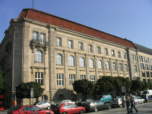 Description: View of Gendarmenmarkt in Berlin. Source: self-made. I release it into the public domain. Gryffindor 16:17, 6 February 2006 (UTC)